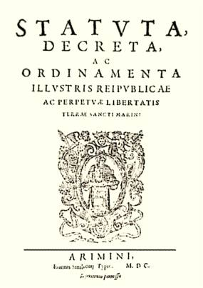 Illustration of the title page of the San Marino Constitution (1600).